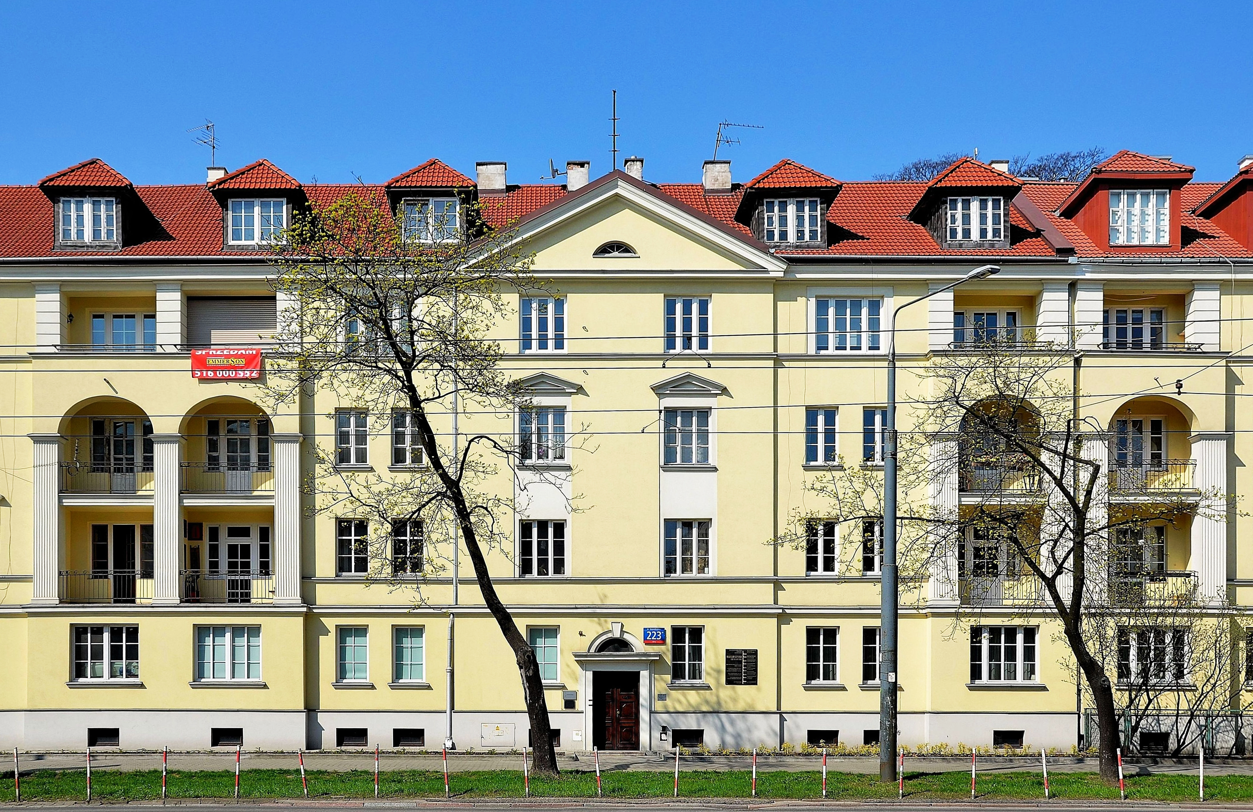 House at 223 Niepodległości Avenue in Warsaw, the place where Władysław Szpilman lived in hiding and where in 1944 he met Wilm Hosenfeld